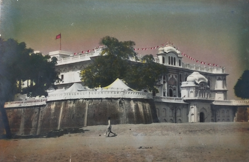 Jagammanpur Fort, Uttar Pradesh